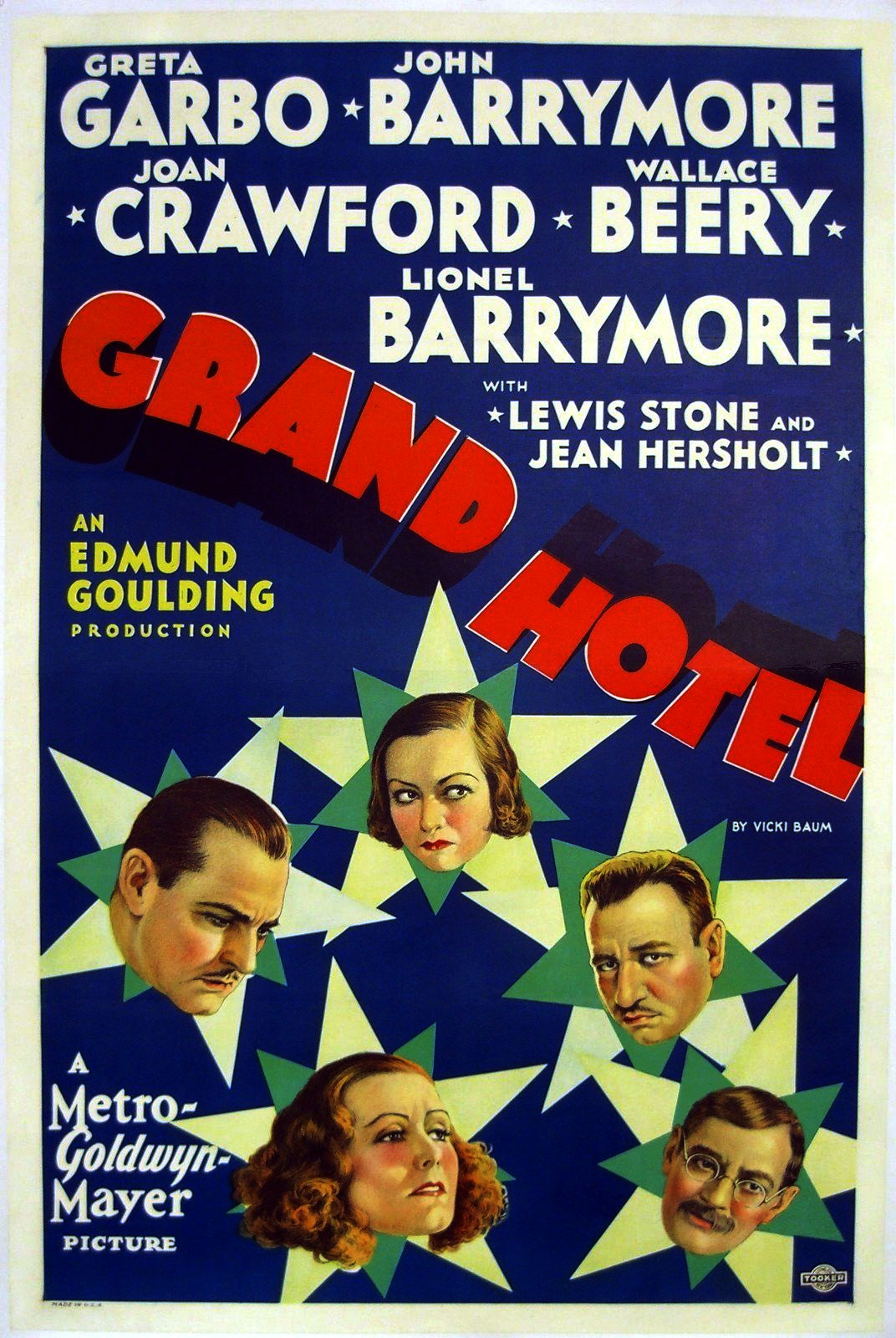 Poster for the film Grand Hotel. The item has no copyright markings on it as can be seen in the links above. At lower right is the mark for the litho Company, Tooker, at lower left is "Made In USA".